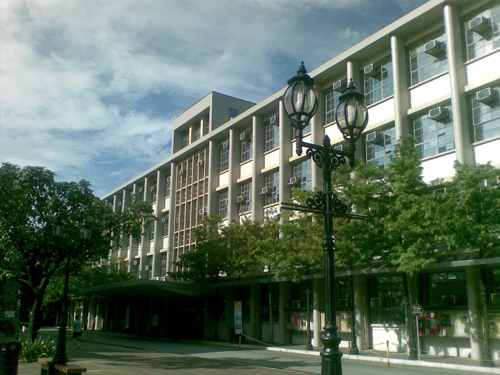 St. Raymund of Penafort Building, UST Manila. Photo courtesy of John P. Arcilla